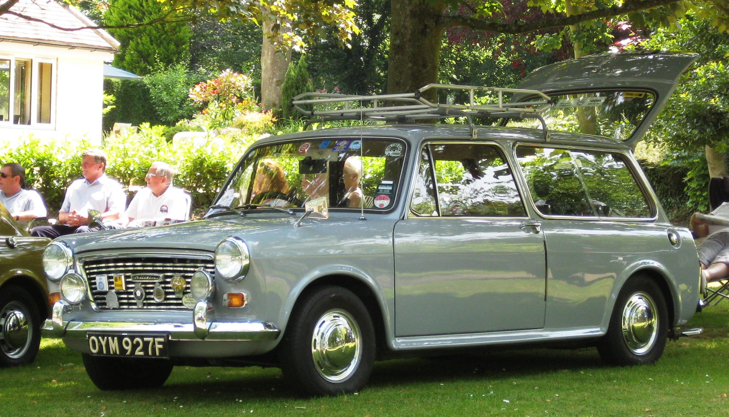 Austin 1100 Countryman Mk I (Austin estates in this period carried the "Countryman" designation.)